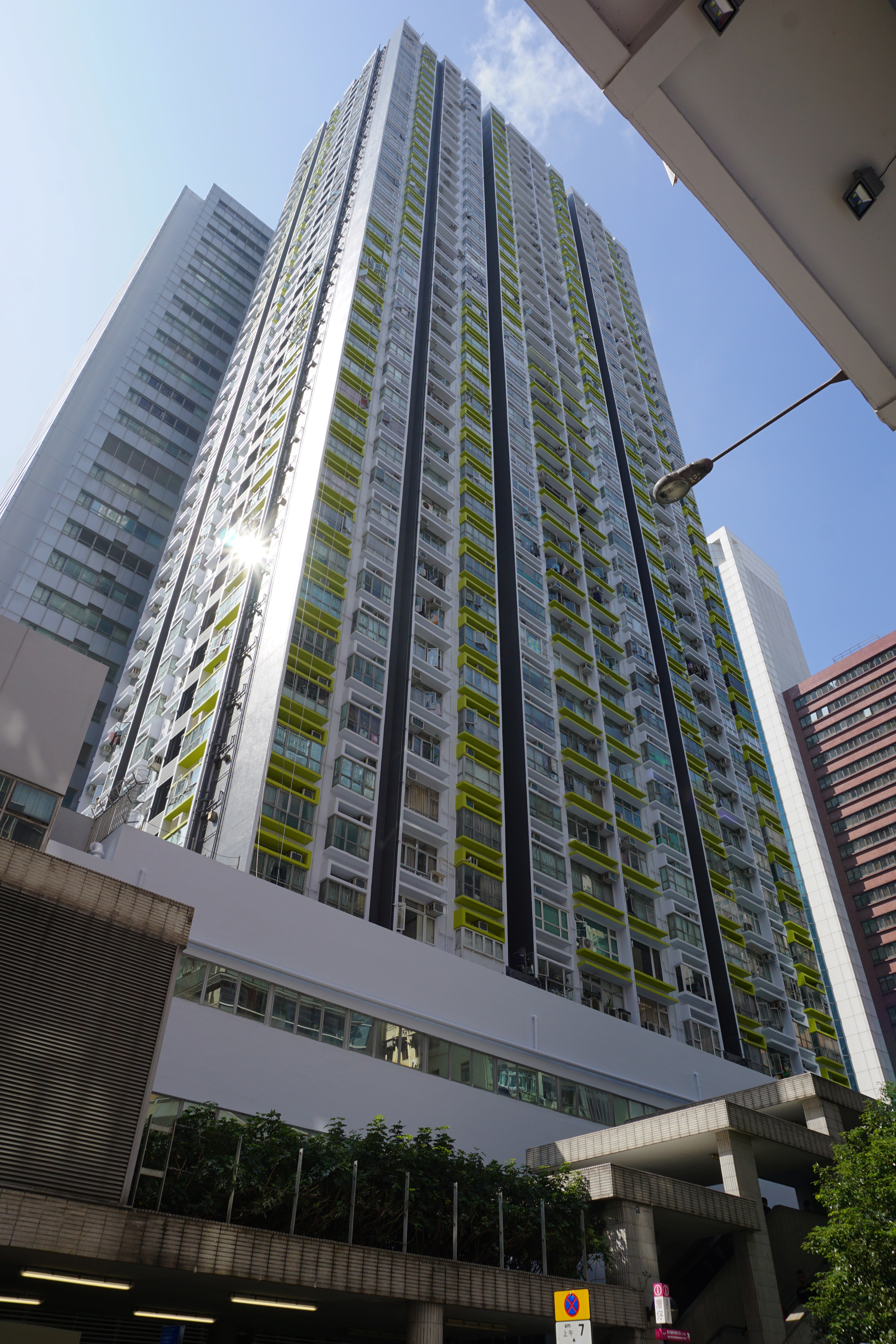 Southorn Garden in Wan Chai, Hong Kong.